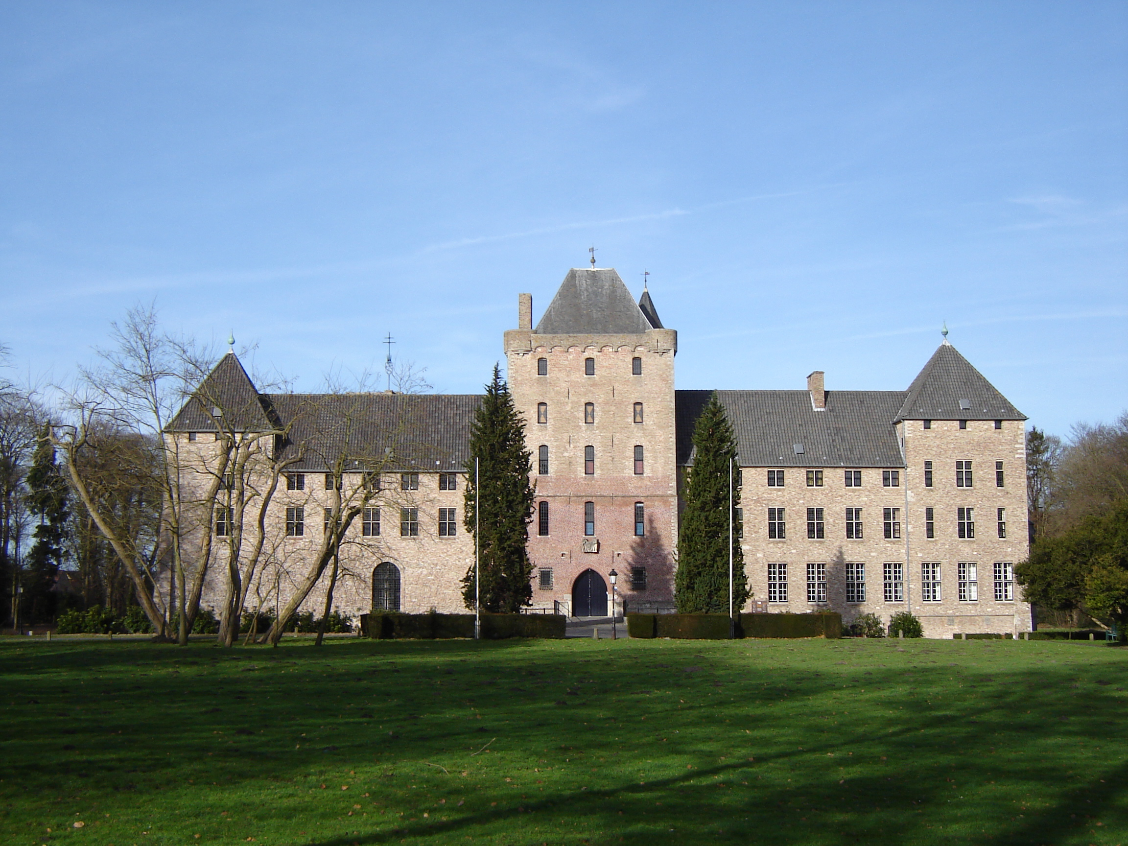 Abbey of Saint Trudo in Male. Male, Sint-Kruis, Brugge, West Flanders, Belgium.